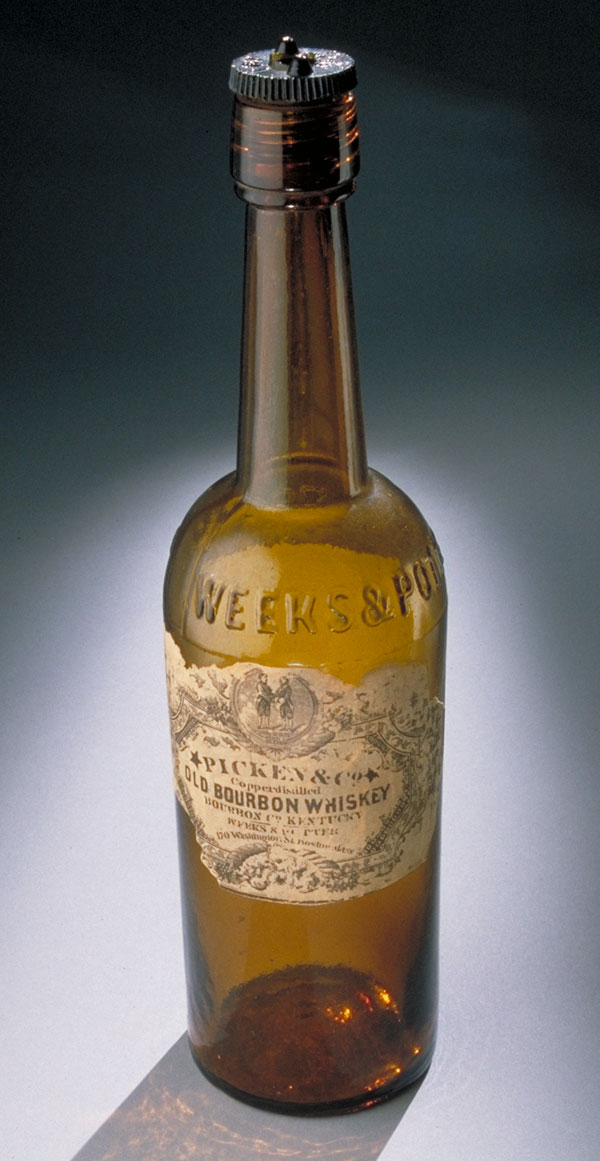 19th century bourbon whiskey bottle from Gettysburg. Photo by Gettysburg National Military Park, GETT 31373